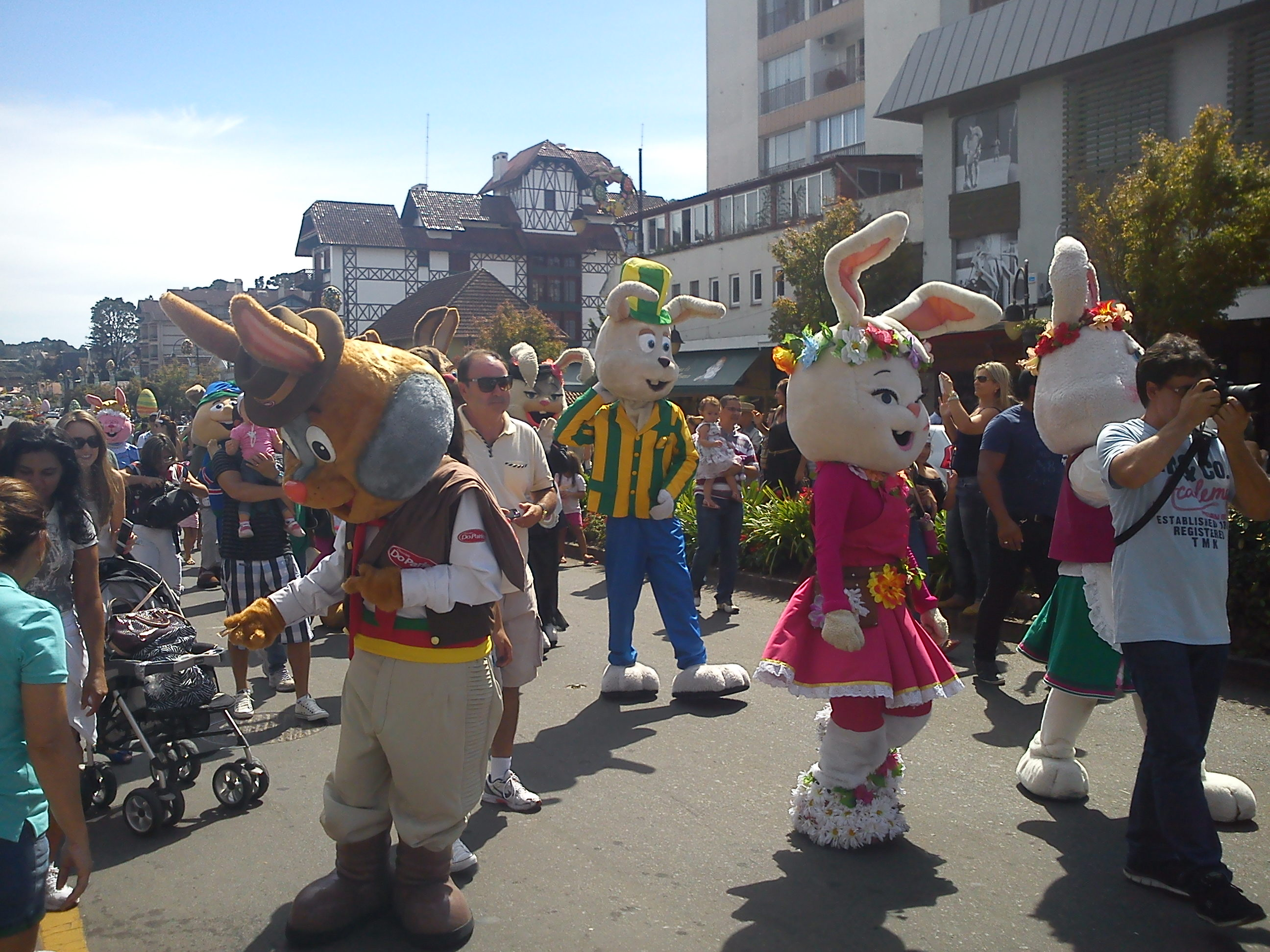 Chocofest - Gramado - RS - Brazil.